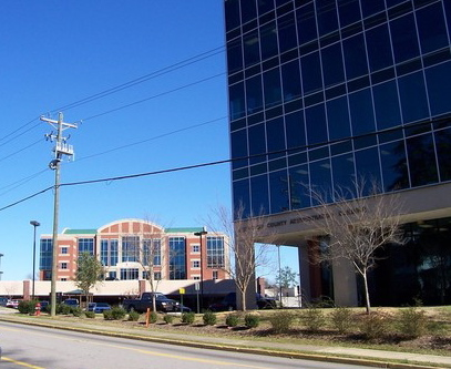 View of Lexington County Register-Deeds Building and the Lexington County Courthouse in the background.